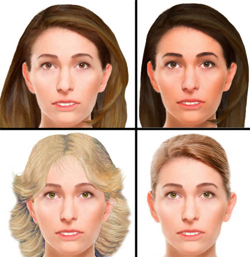 On October 27, 2006, the partial skeleton of a young woman was found in a field near the entrance to the Darlington Nuclear Plant in Clarington, Ontario.